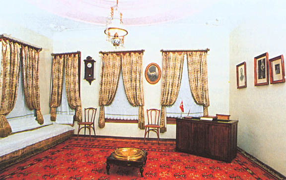 Kemal’s sleeping quarters, image from the Ataturk Museum, Thessaloniki, Central Macedonia, Greece